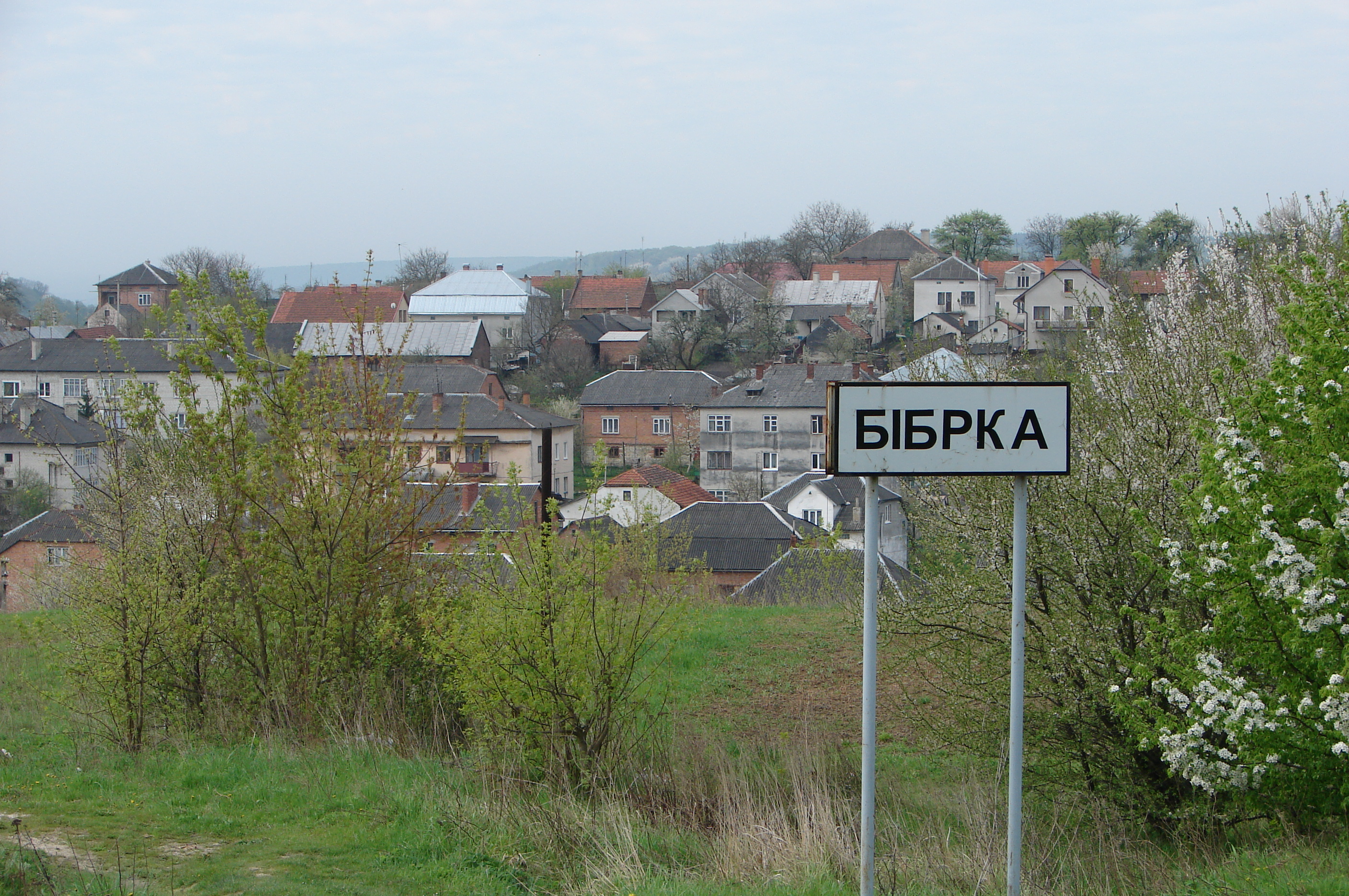 Bibrka